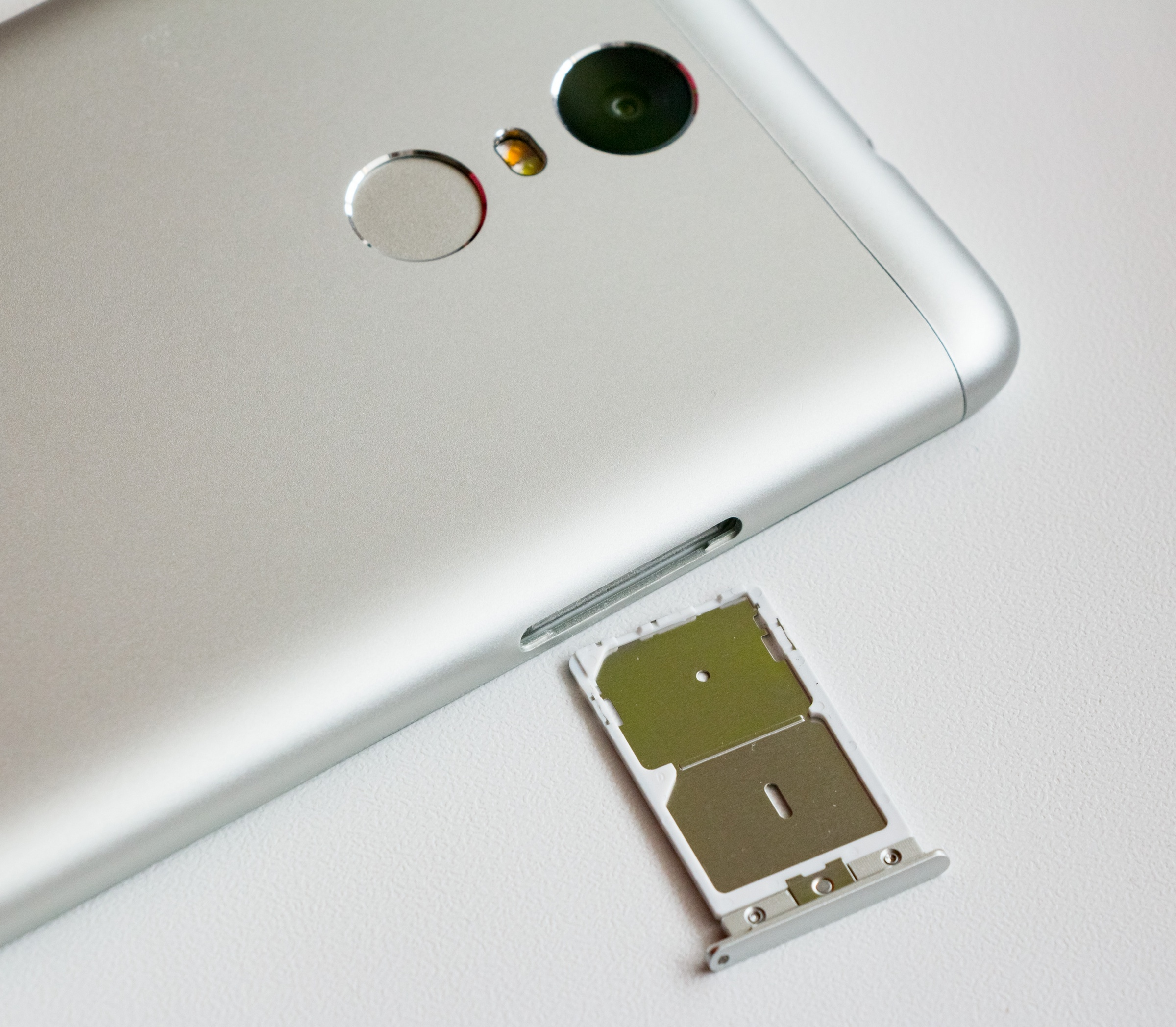 Dual SIM card tray of a Xiaomi Redmi Note 3 smartphone